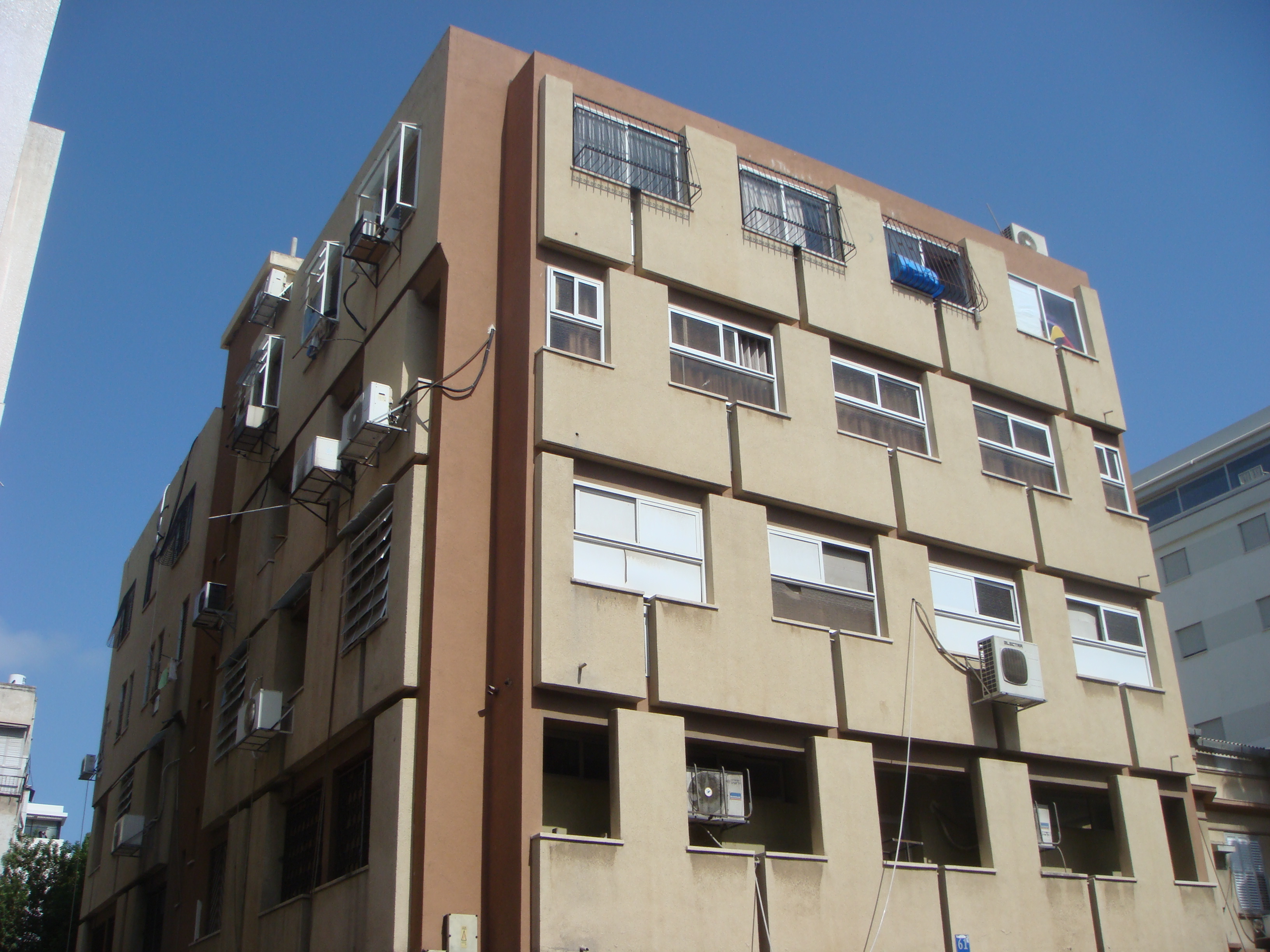 Belz yeshiva in Tel Aviv center.